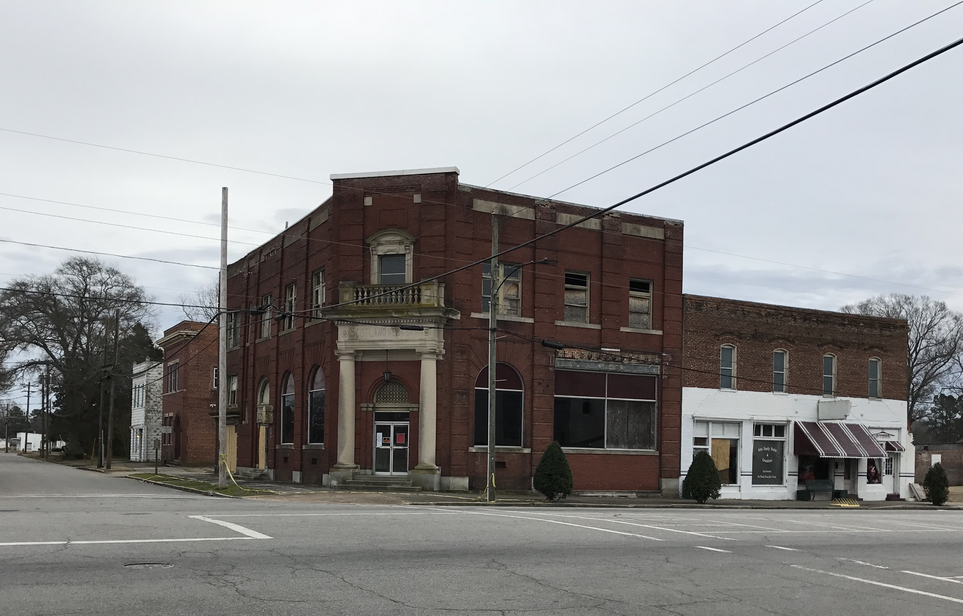 Condemned Scotland Neck Bank building